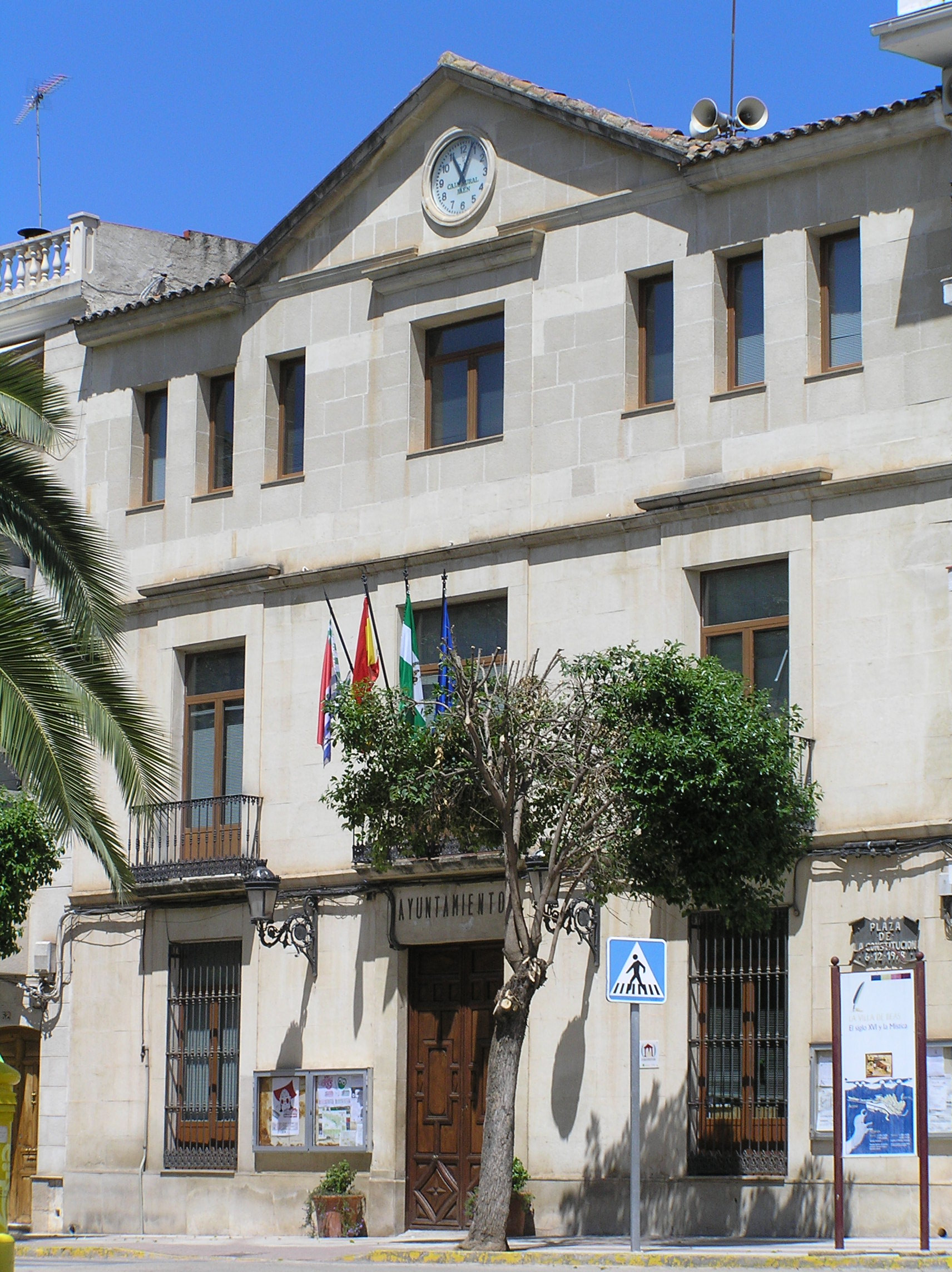 Fachada del Ayuntamiento de Beas de Segura.